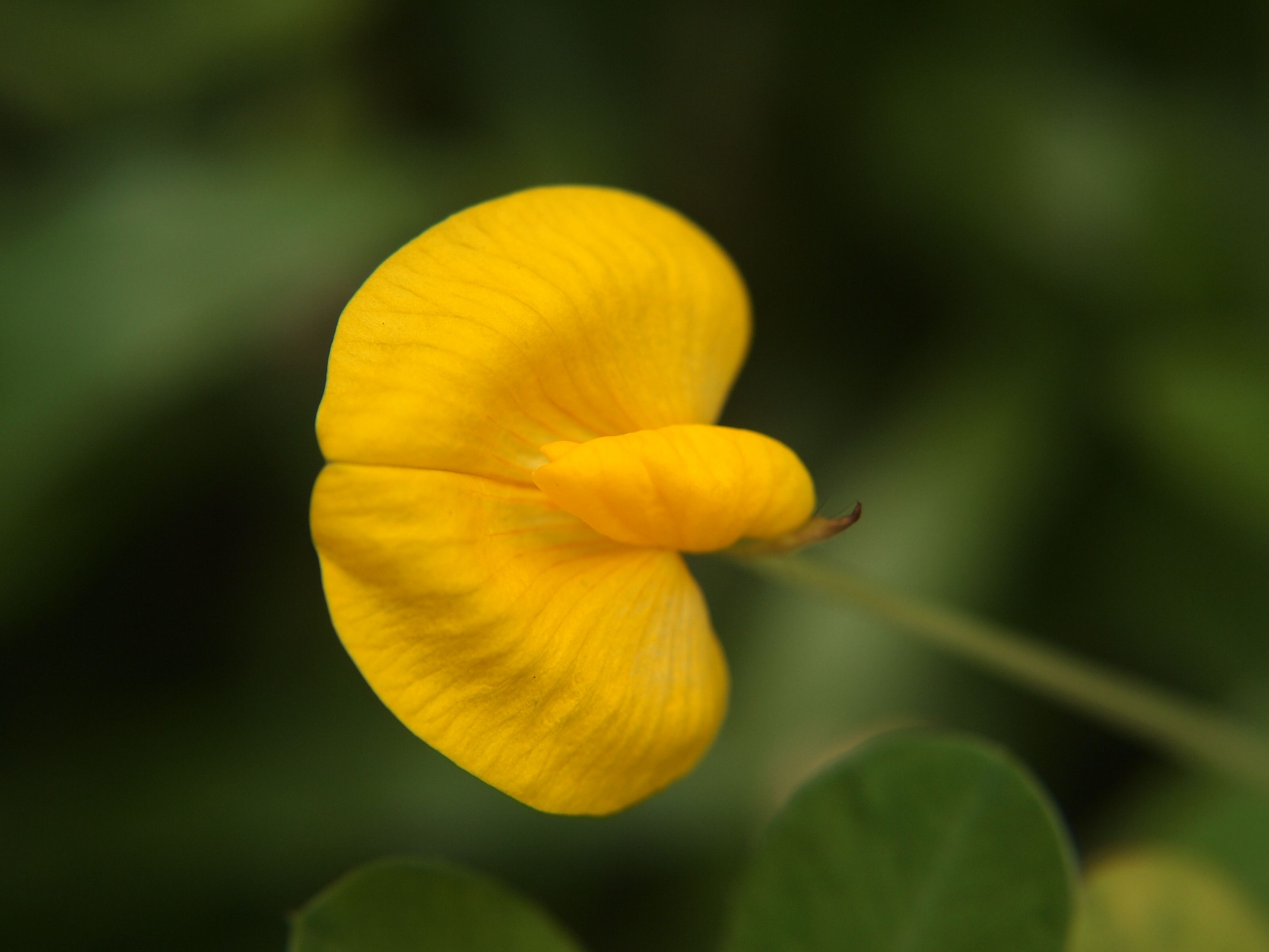 The flower of Arachis hypogaea / Peanut